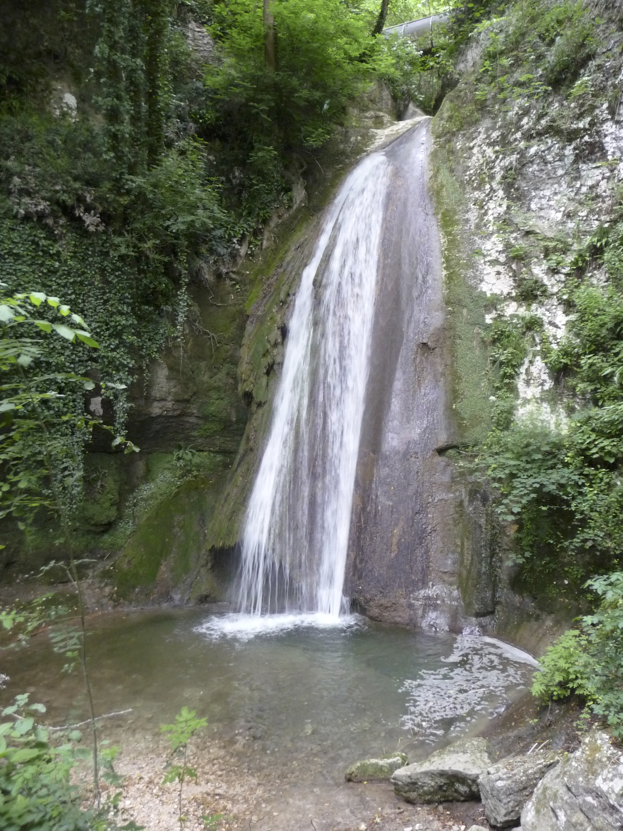 Natural park of the Cascate di Molina (Molina Falls) in Fumane, Verona, Italy.